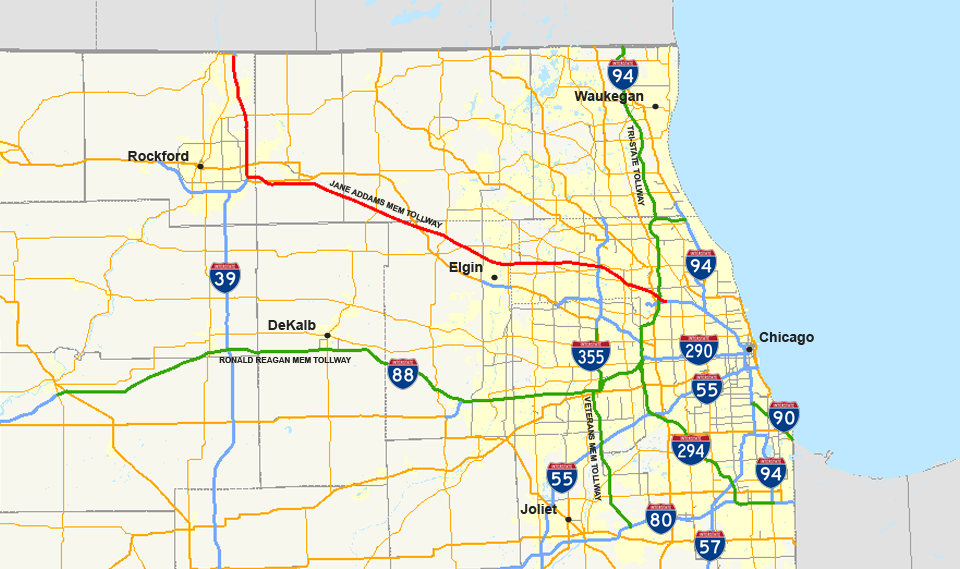 map of Jane Addams Memorial Tollway.